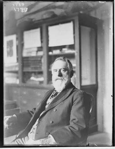 F.W. Putnam in Peabody Museum office. Courtesy of the Peabody Museum of Archaeology and Ethnology, Harvard University, PM 2004.24.1789